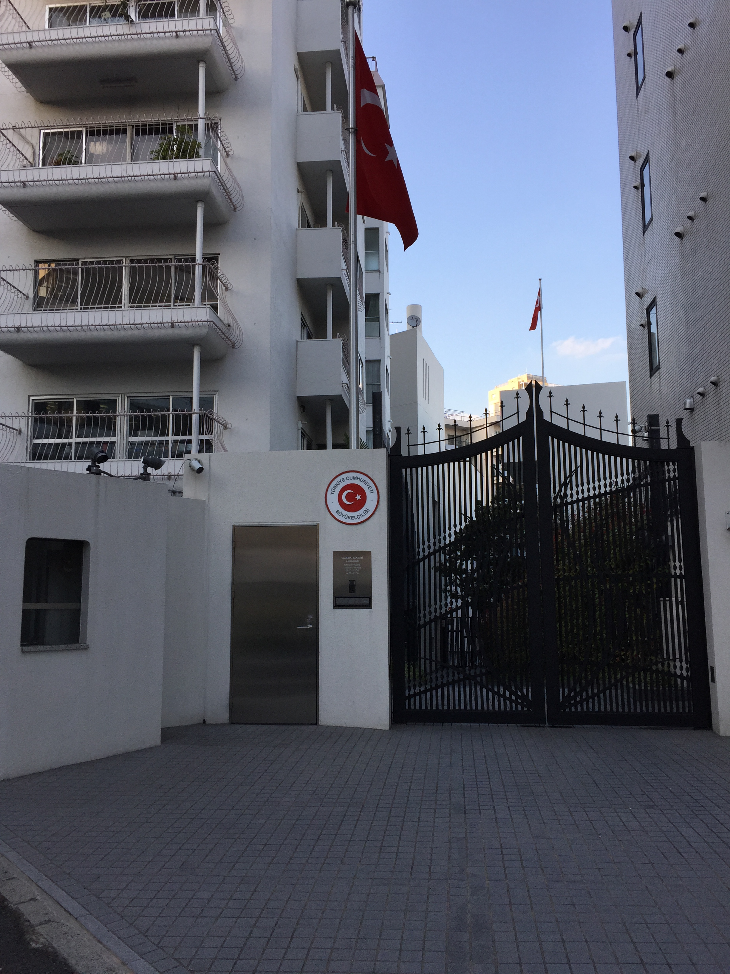 The front entrance of the Turkish Embassy in 2 Chome-33-6 Jingumae, Shibuya.